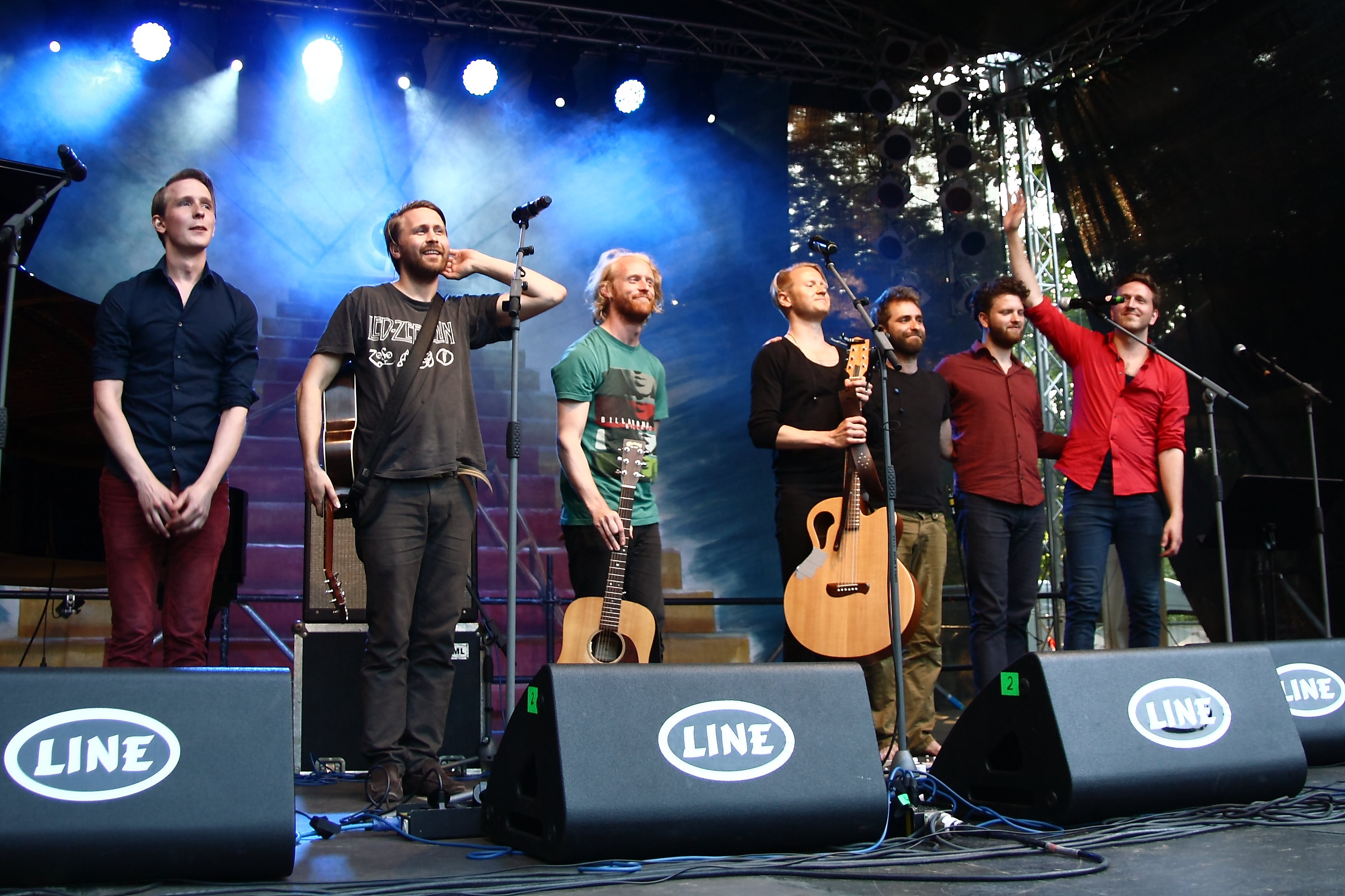 Árstíðir at TFF Rudolstadt 2013.